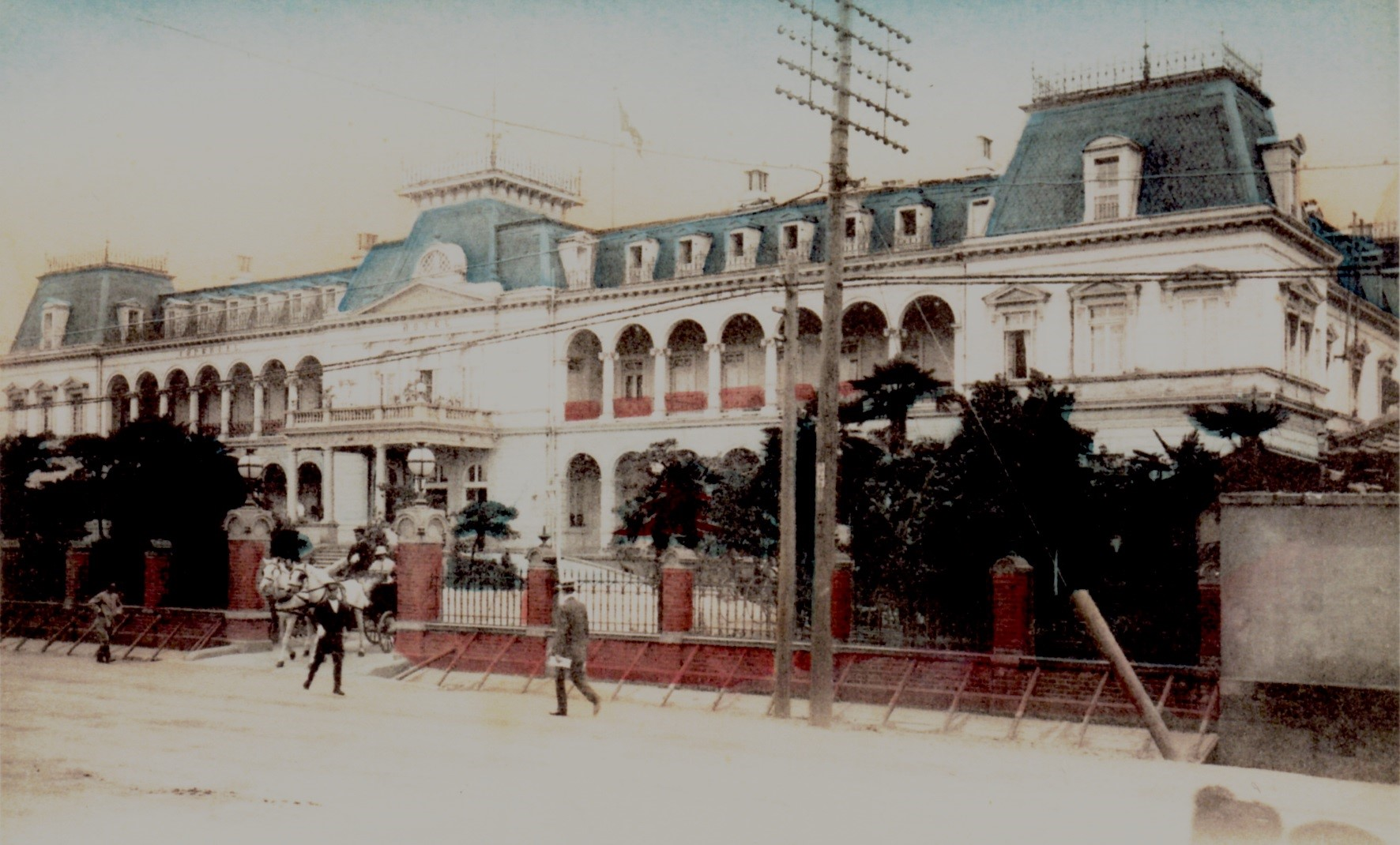 Japanese hand tinted view of the original Imperial Hotel building in Tokyo